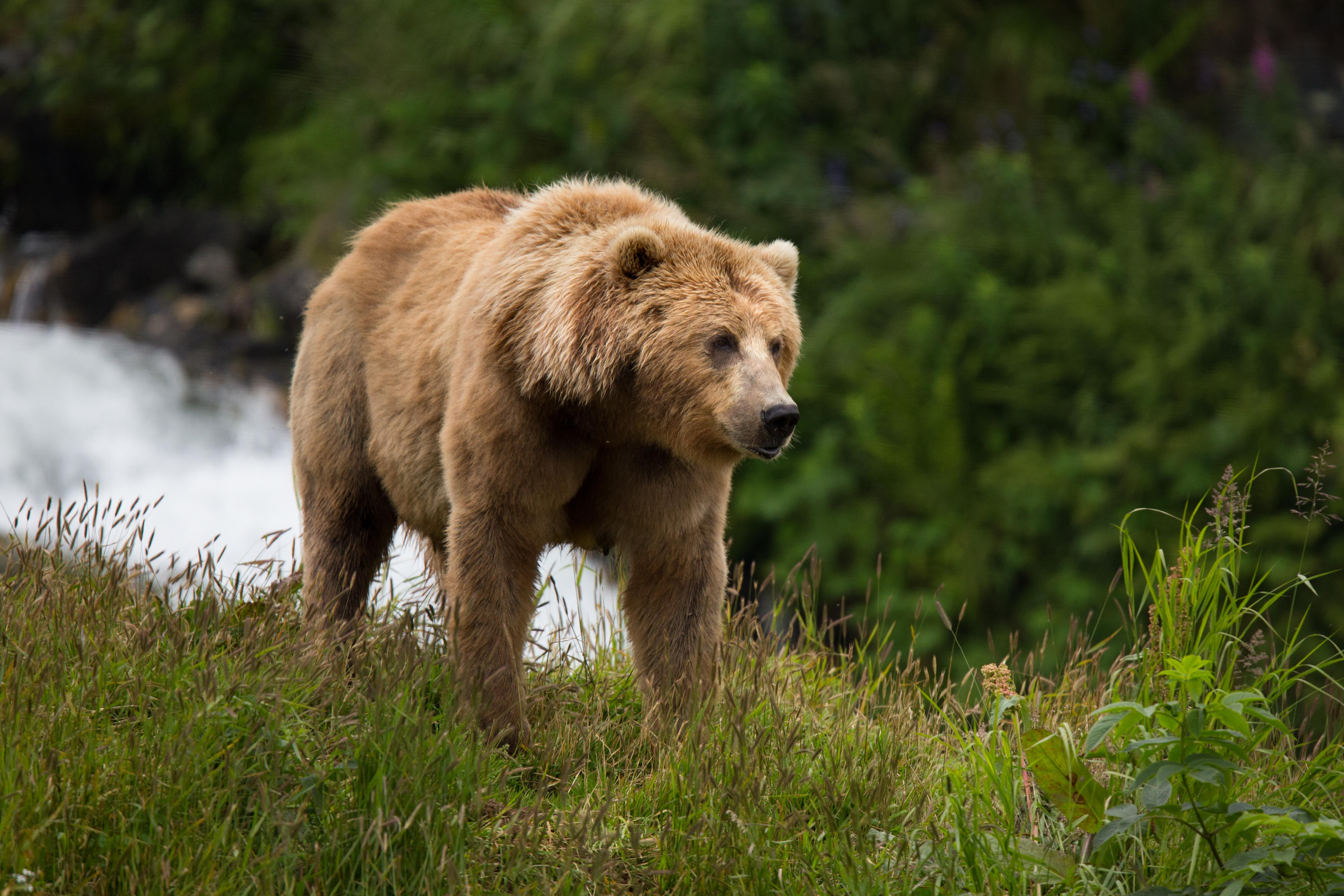 Kodiak brown bear sow